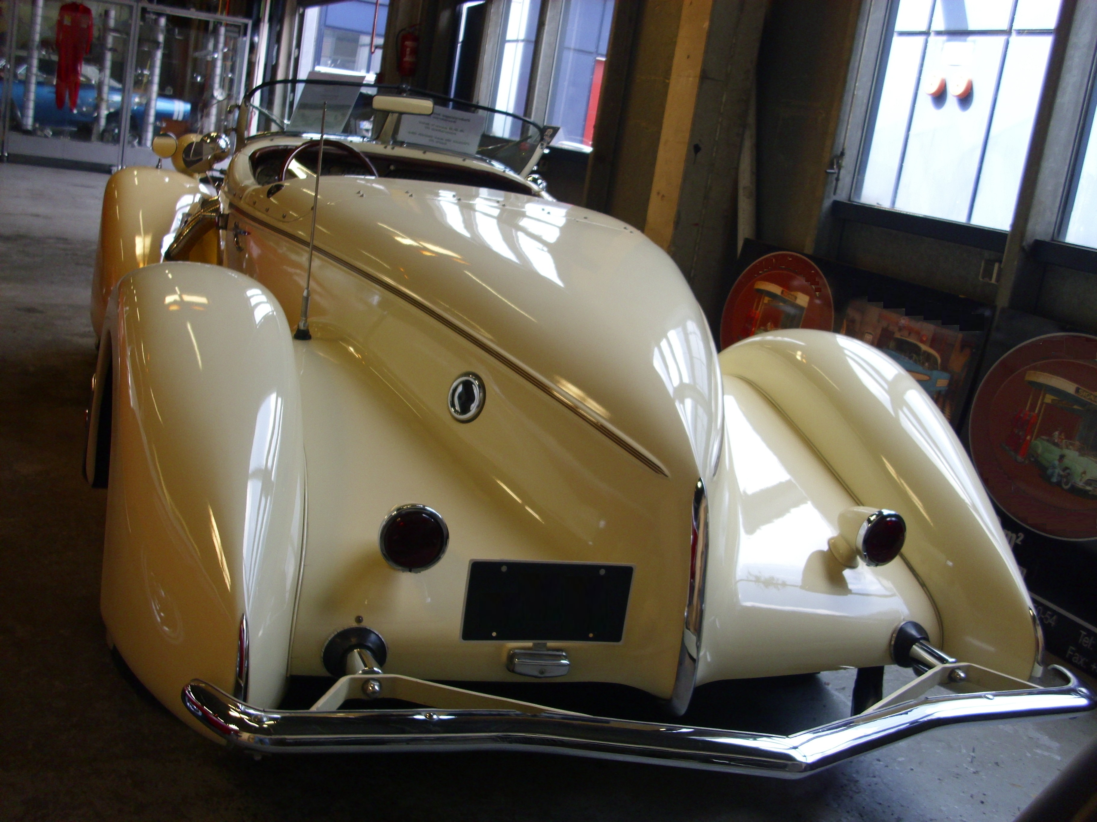 California Custom Coach Auburn 876 Speedster Convertible Roadster 1978